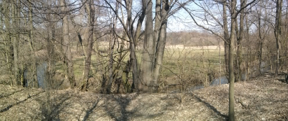 Meander of river Wesenitz, near Bischofswerda